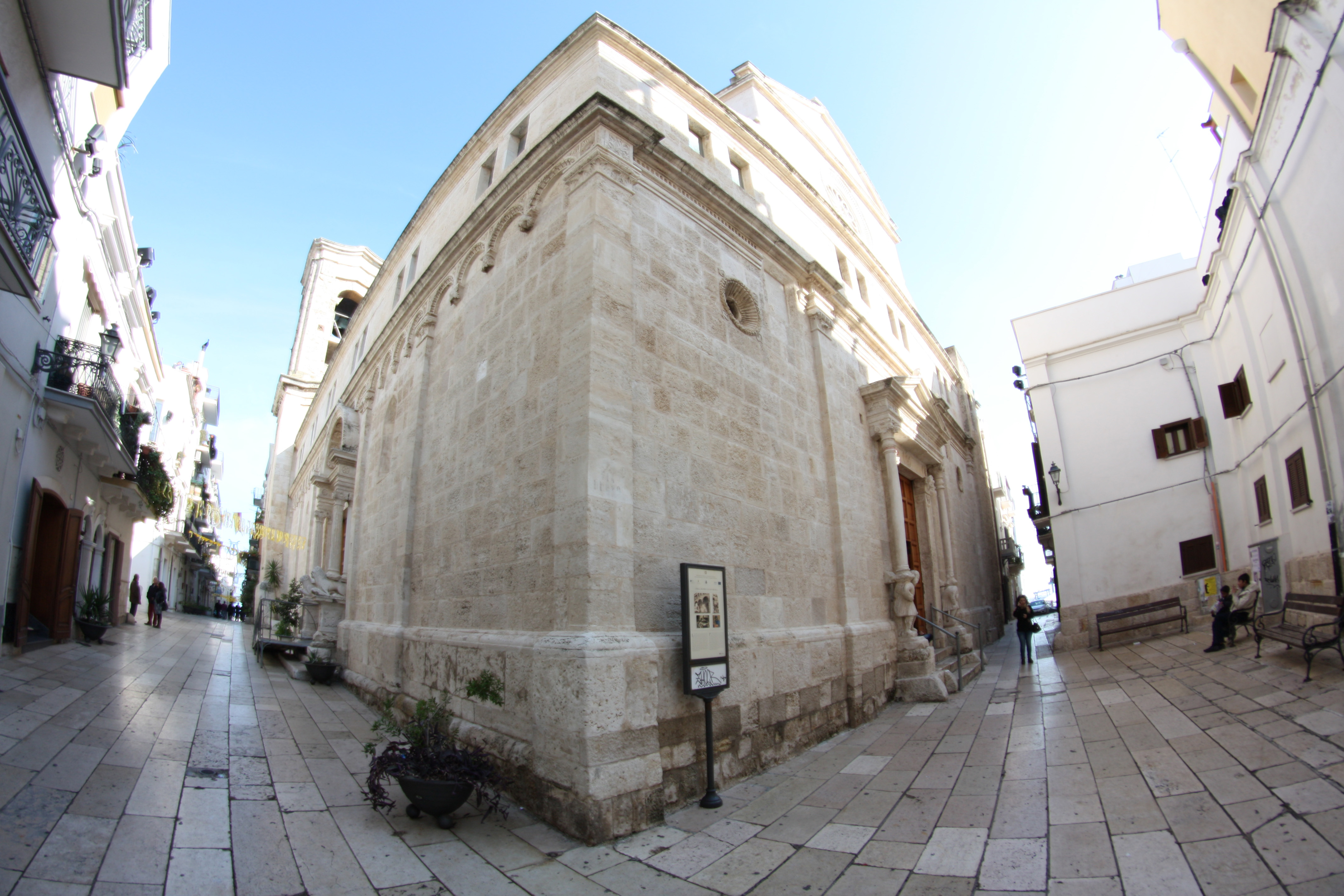 Chiesa Matrice Mola di Bari